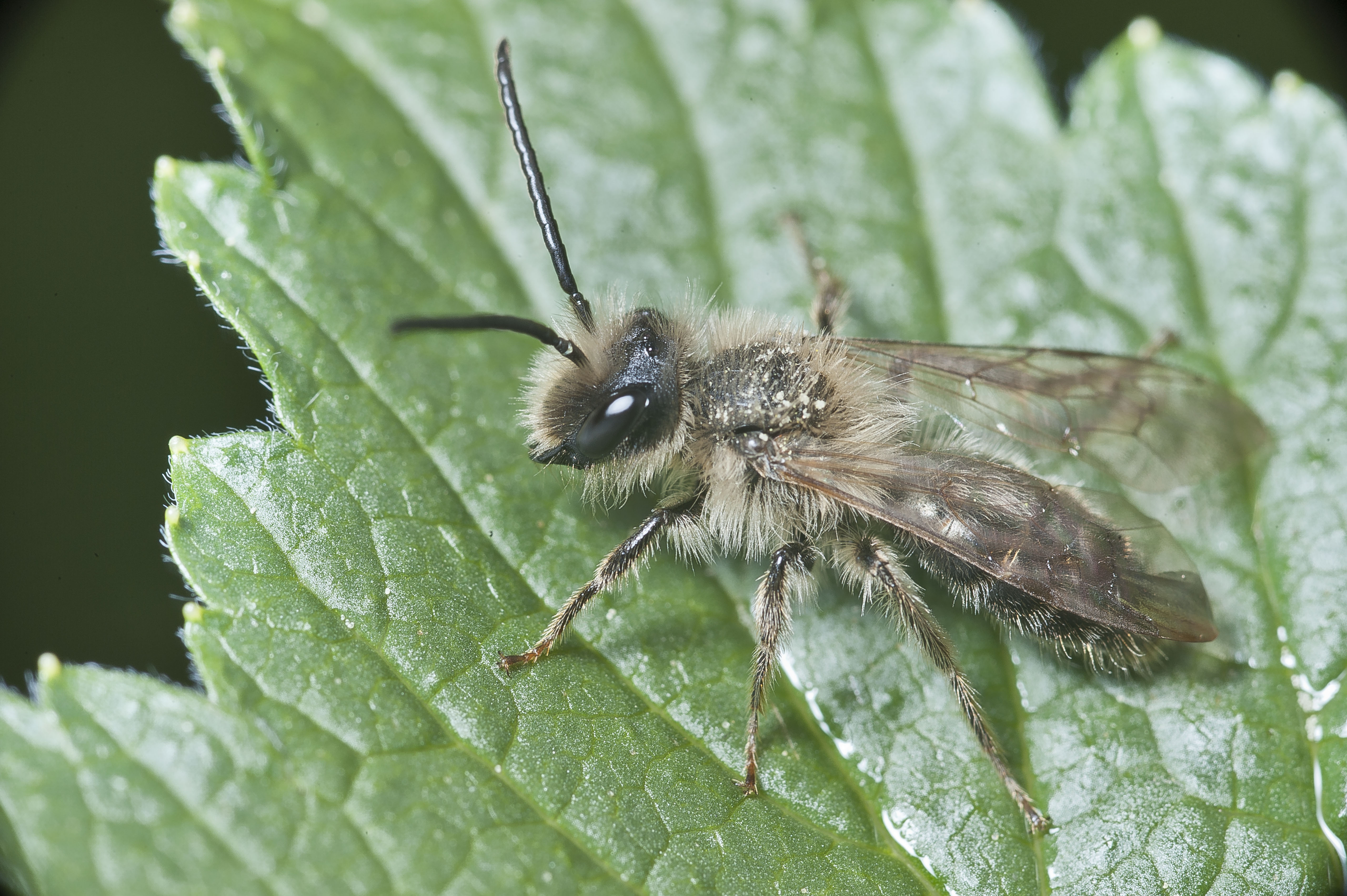 Andrena barbilabris, m, picture taken in Stuttgart, Germany.